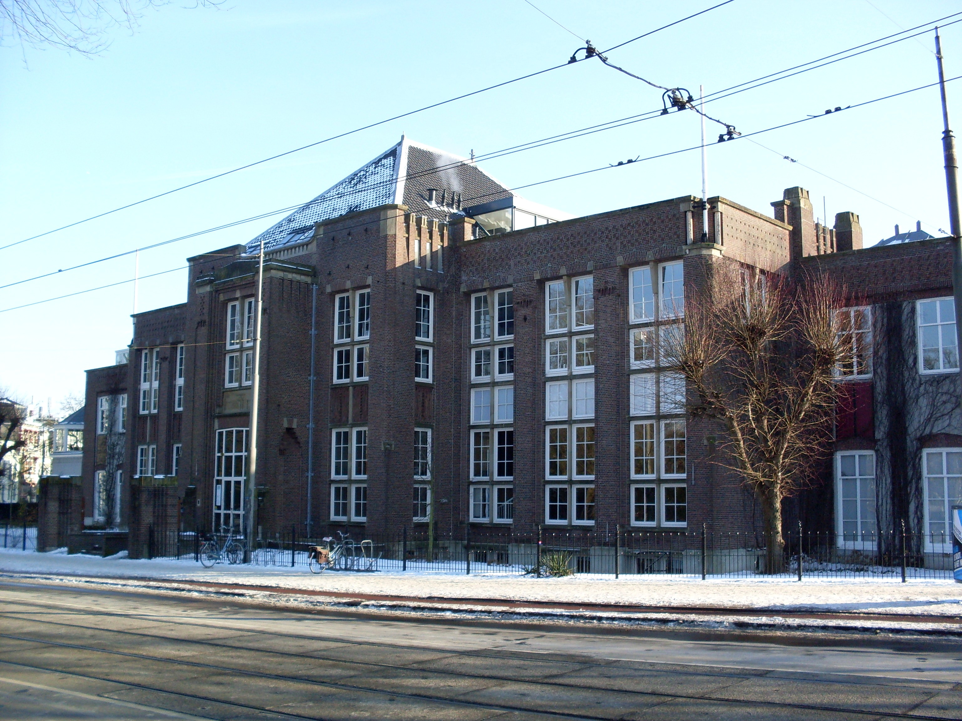 Amsterdam, Hugo de Vries-Laboratorium, Plantage Middenlaan 2 c tm. g.